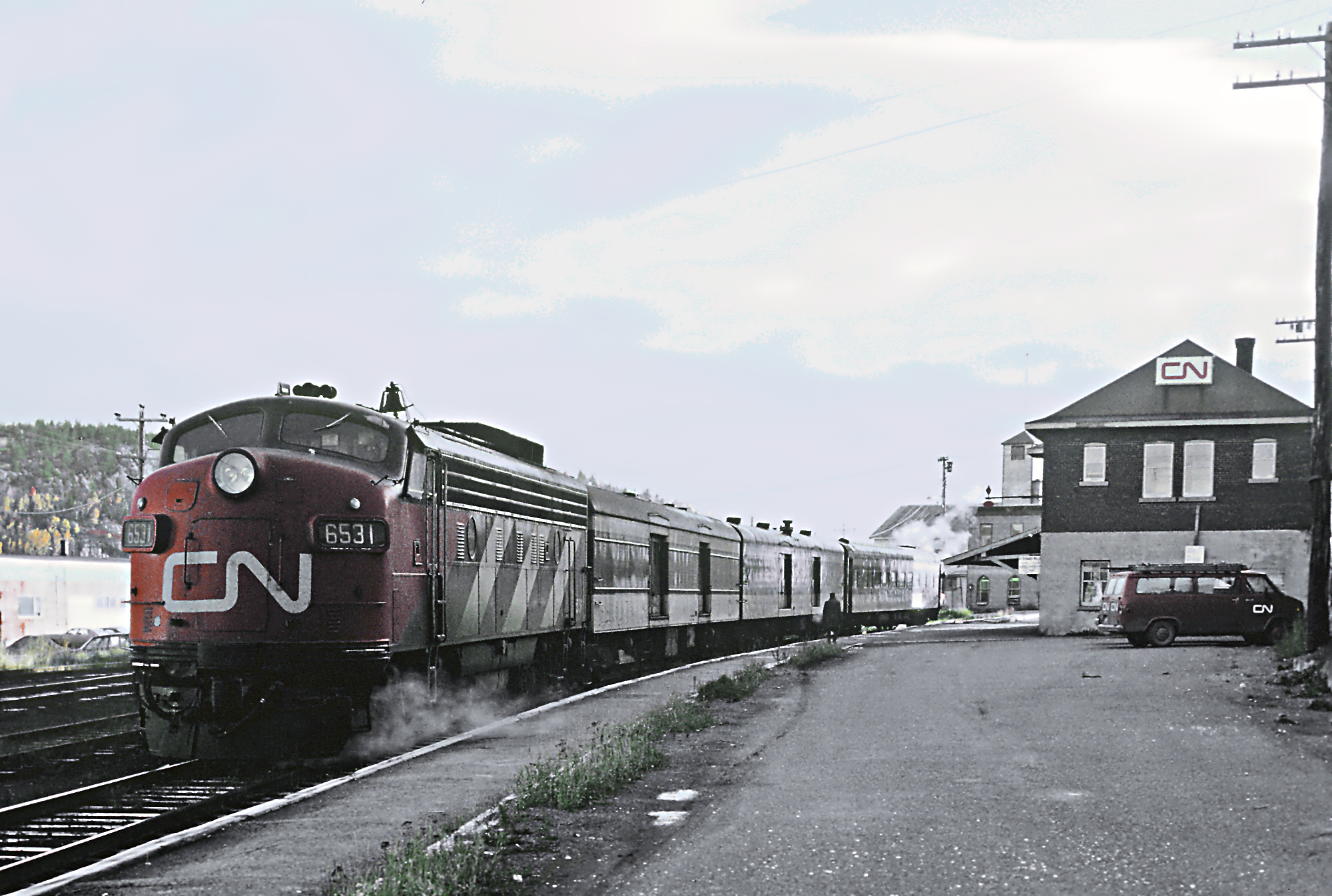 A Roger Puta Photograph